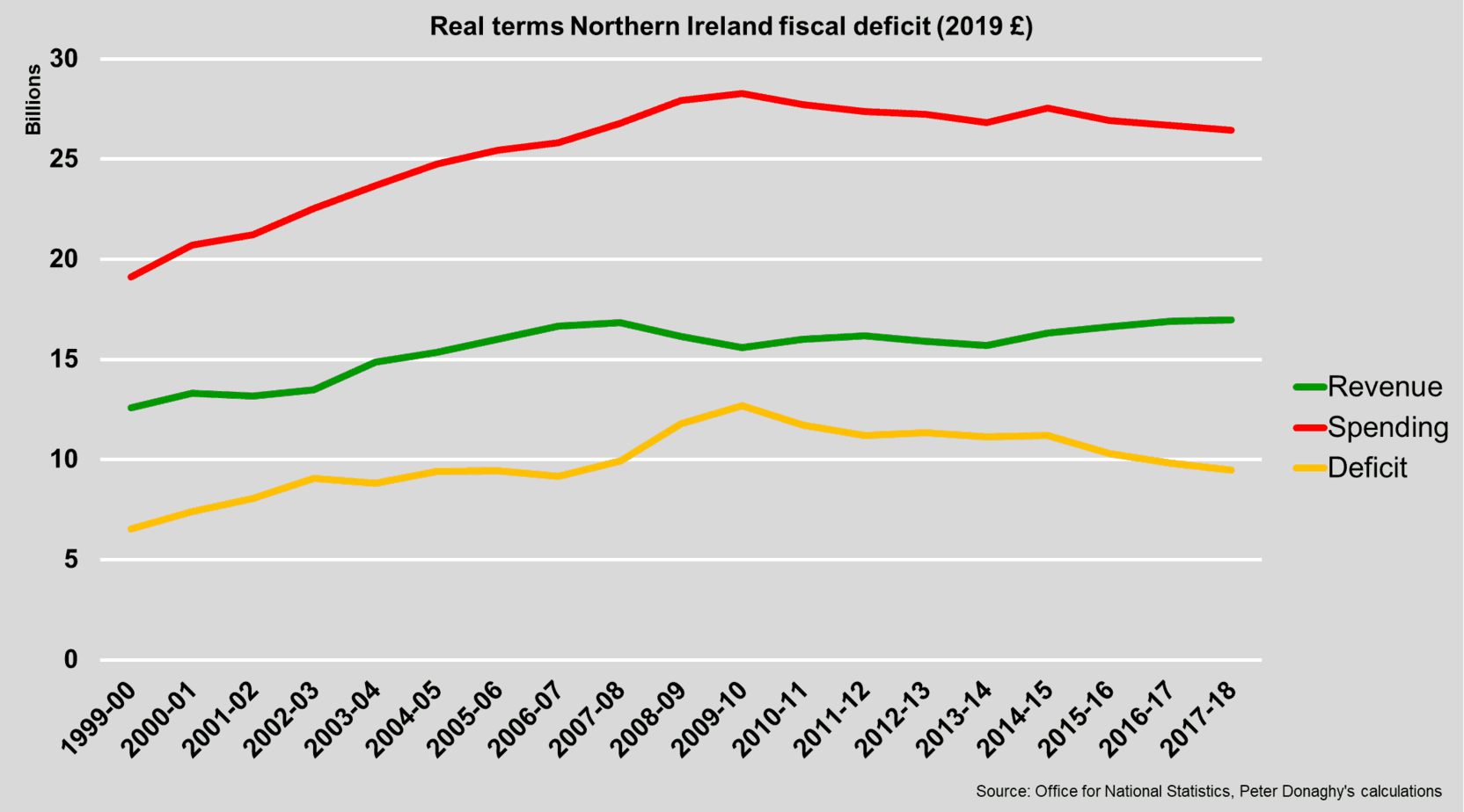 Chart showing Northern Ireland fiscal deficit from 1999 to 2018